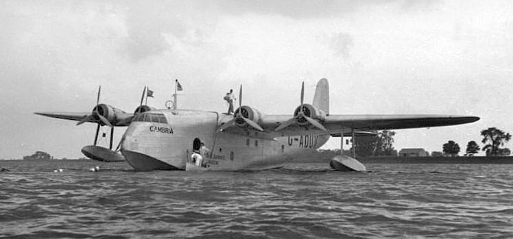 We see the seaplane "Cambria" landed on a river. We note that the device has four engines